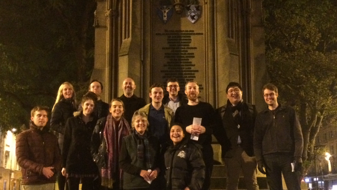 Wycliffe students mark Reformation Day